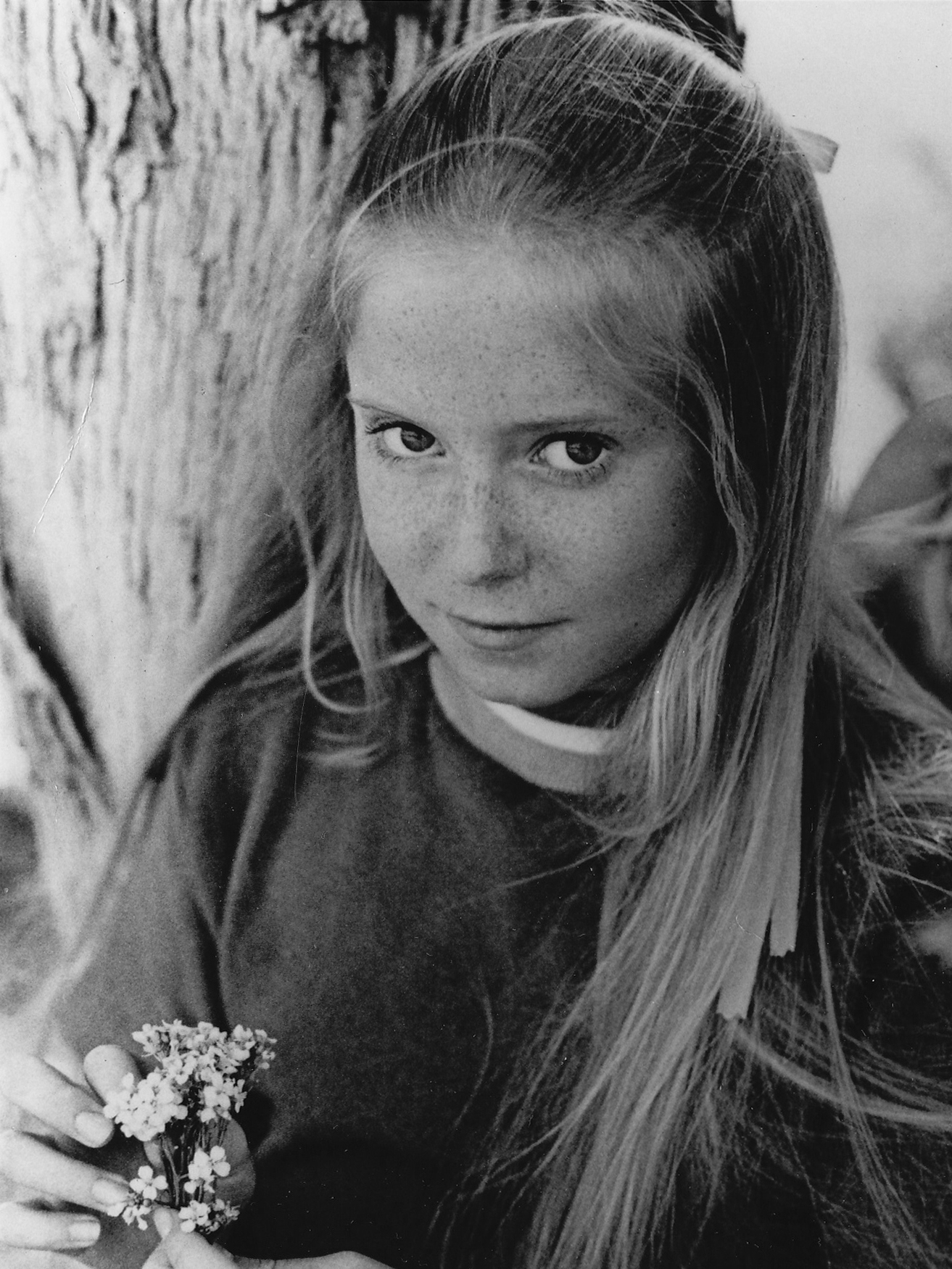 Publicity photo of American child actresss, Eve Plumb, circa 1971, demonstrating a "then-and-now" comparison, promoting her first "grown-up" role in the Monday, September 27, 1976 premiere of the NBC television film Dawn: Portrait of a Teenage Runaway.